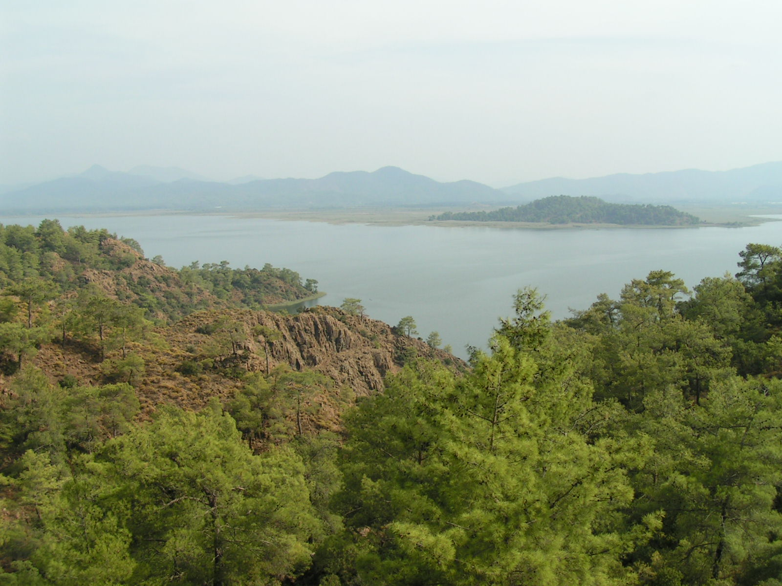 Köyceğiz Lake from the road to Ekincik